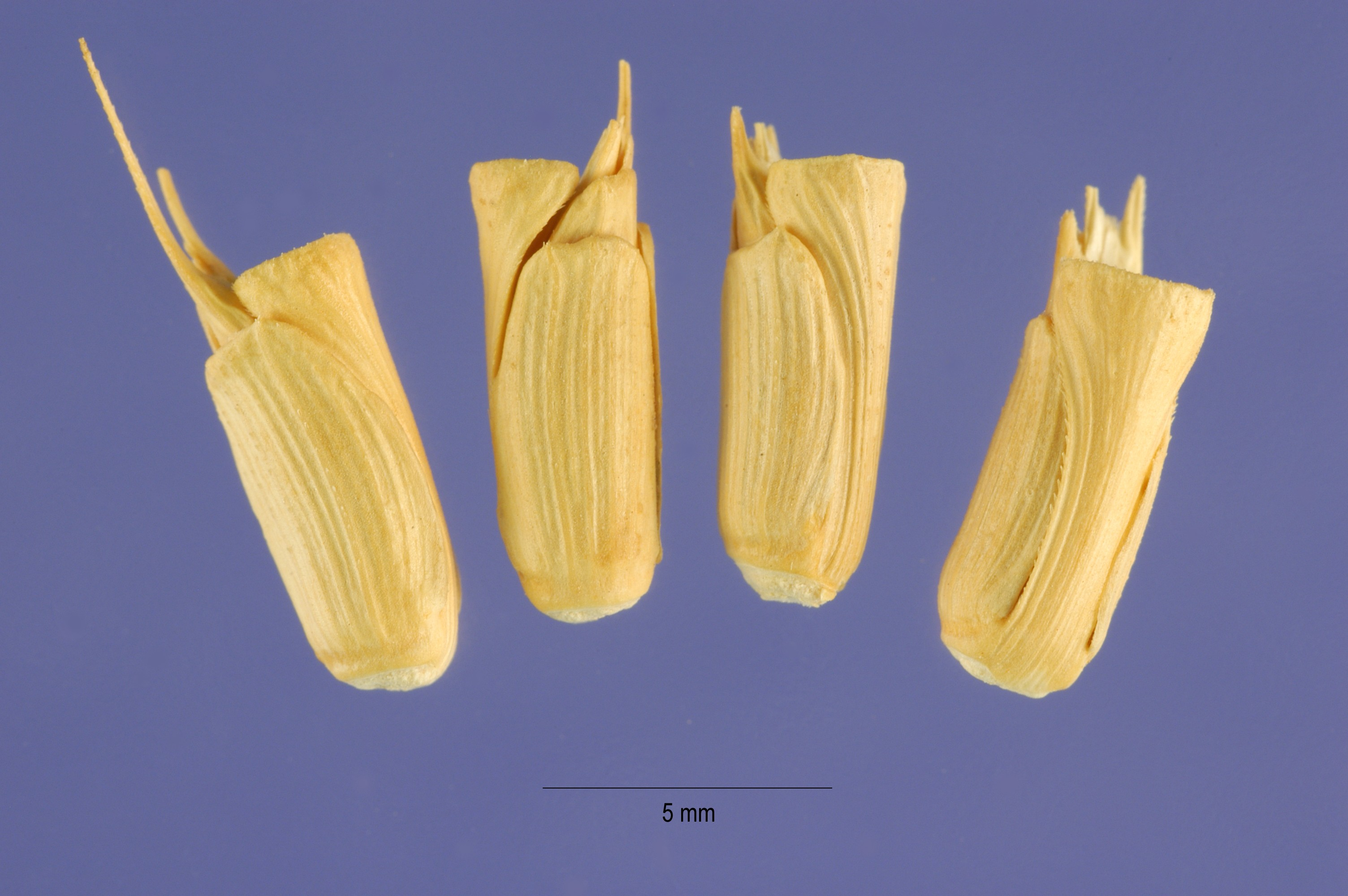 Jointed Goatgrass. Seeds from Afghanistan.